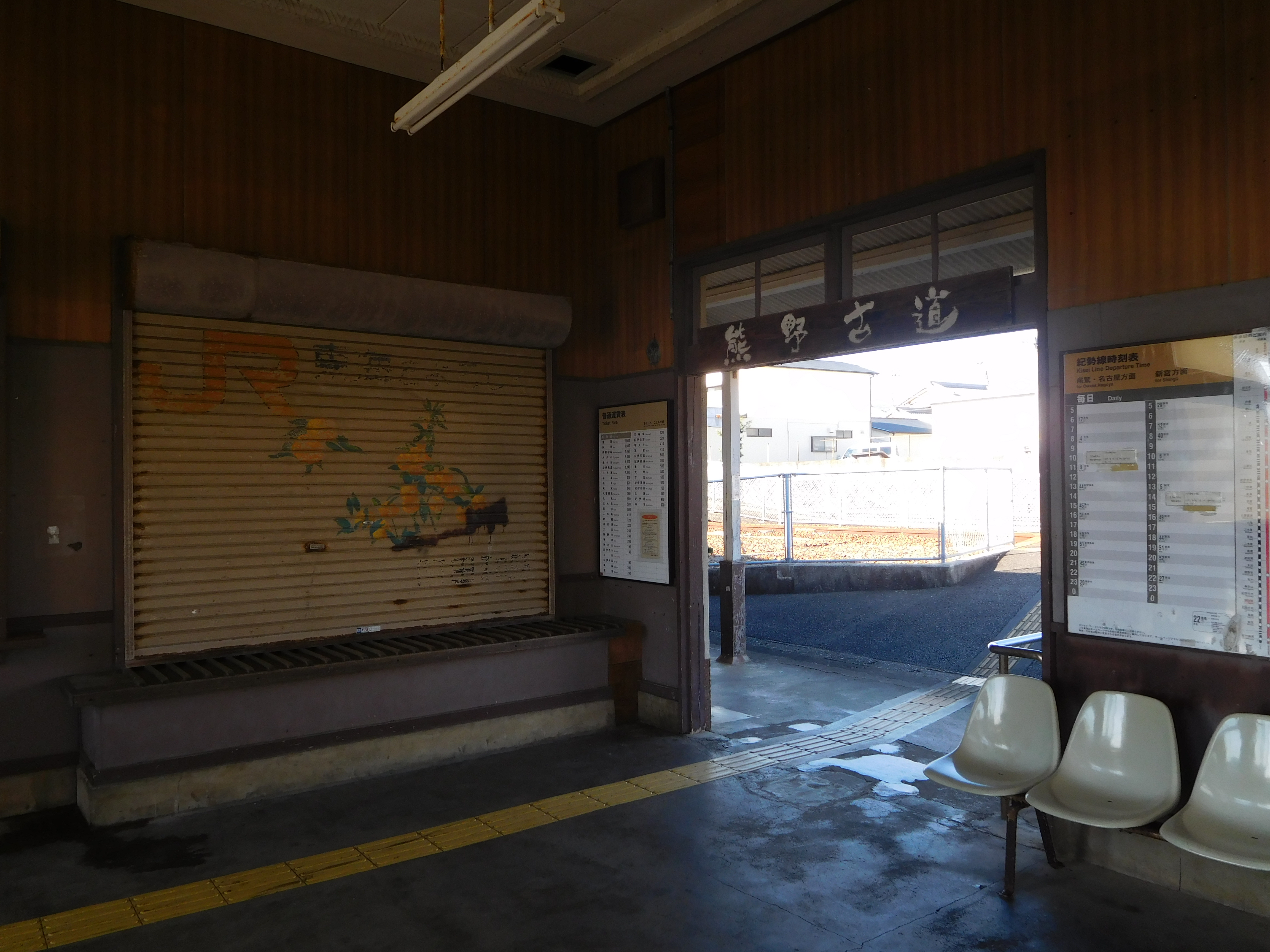 This is the JR Atawa station, which is located on Mihama, Mie, Japan.